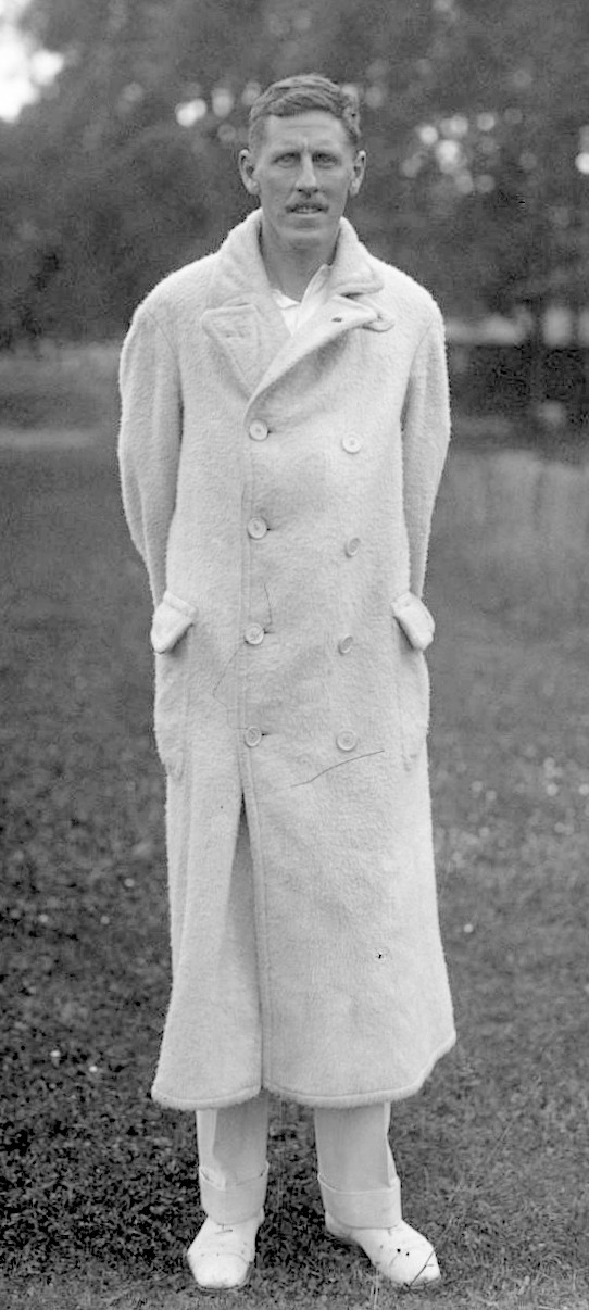 South African tennis player Harold Kiton (1874-1951)